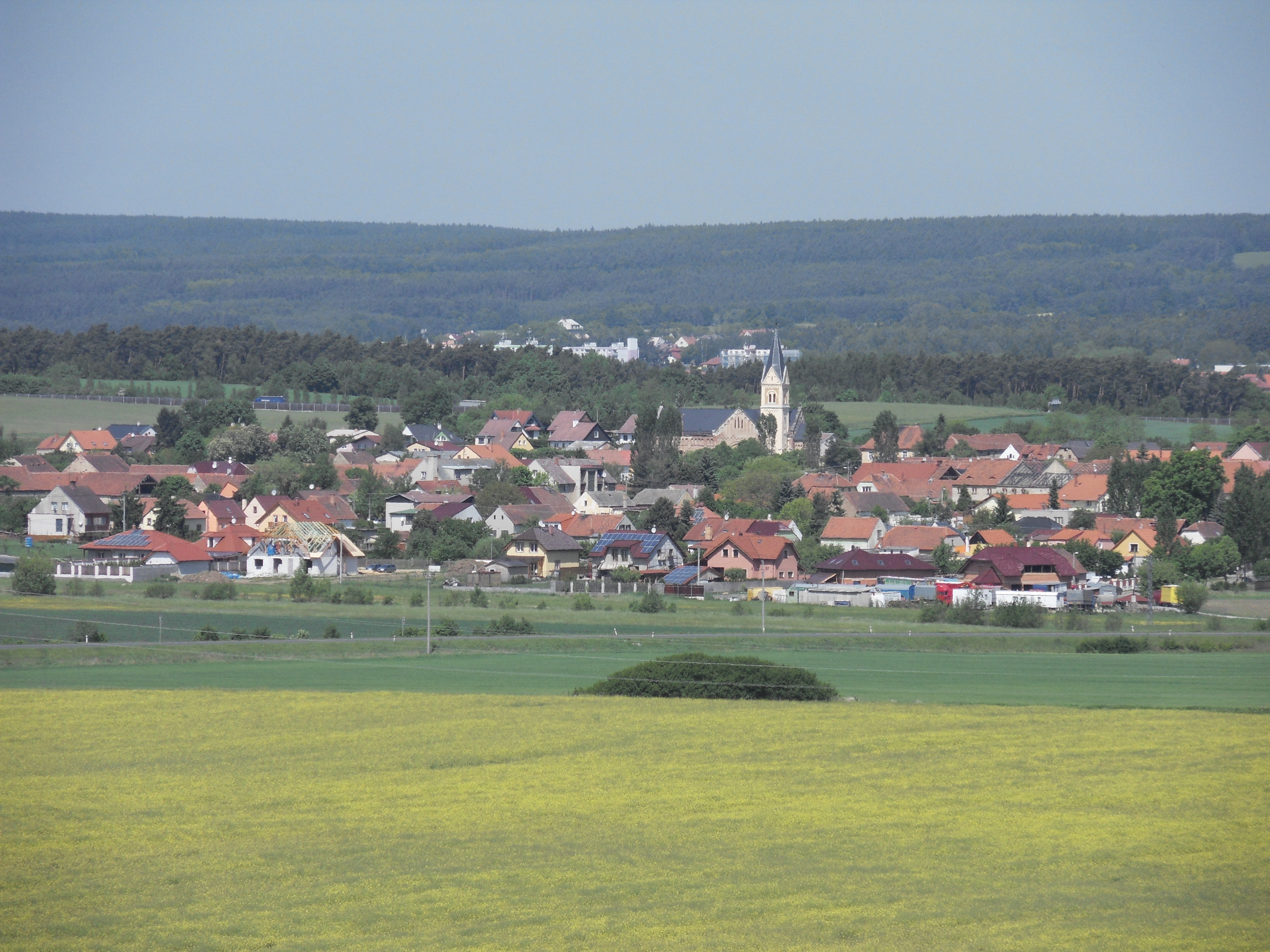 Úherce - village in Plzeň-sever District, Czech Republic